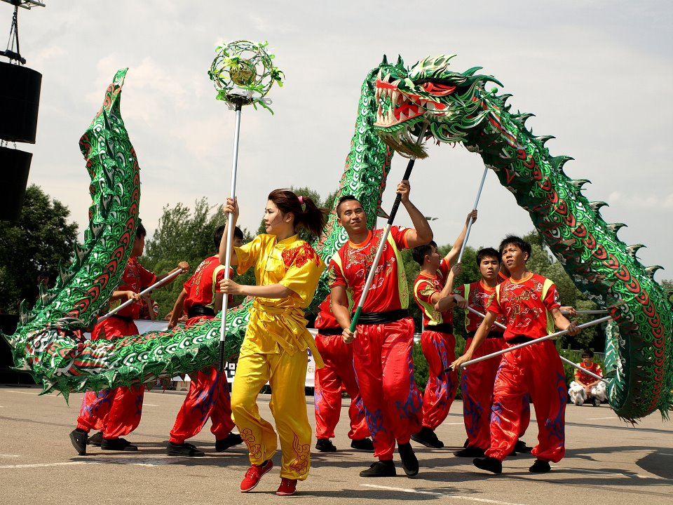 5th Tafisa World Sport for All Games Šiauliai 2012